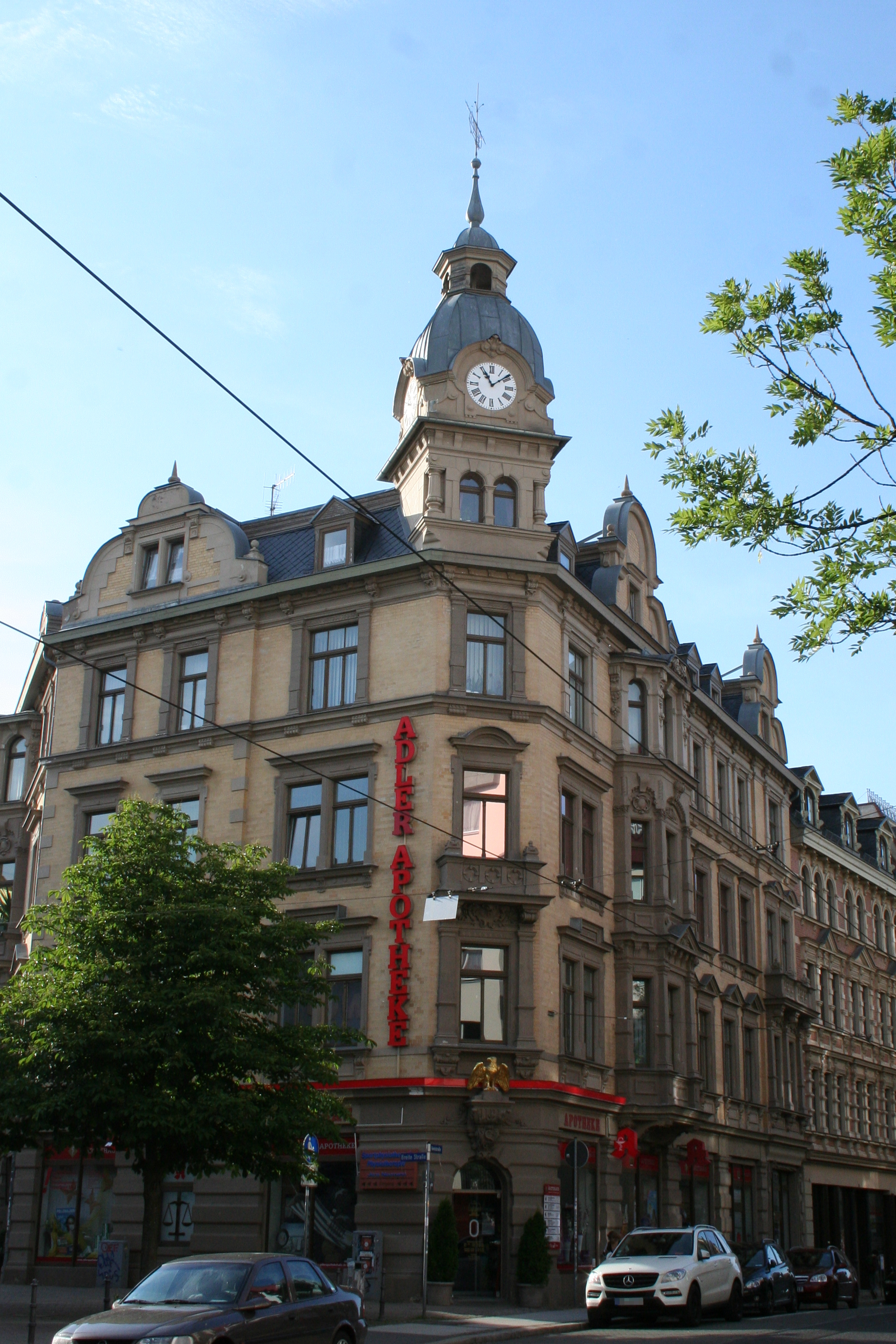 Geiststraße 15 in Halle (Saale)